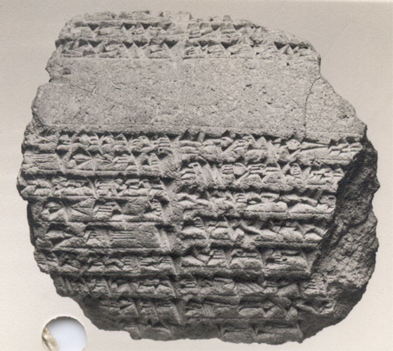 Babylonian; Cuneiform cylinder; Clay-Tablets-Inscribed